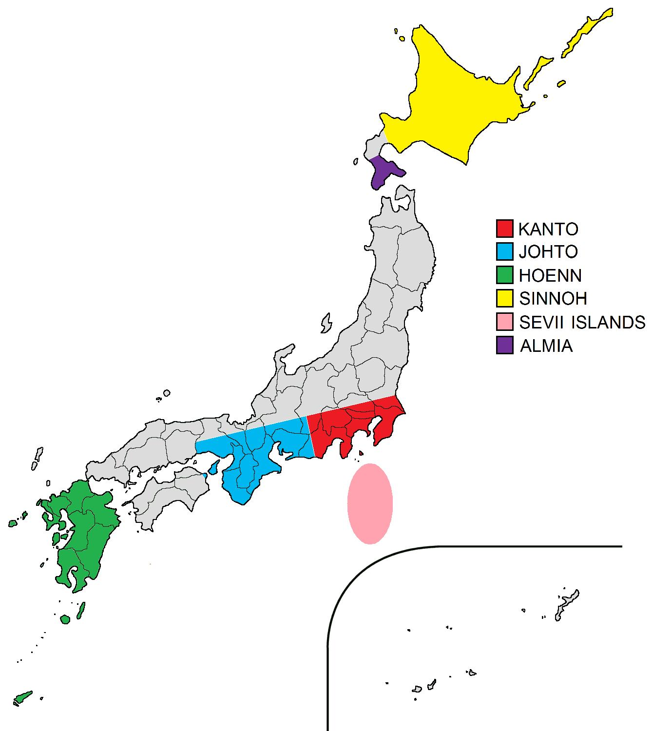 11=Pokémon world